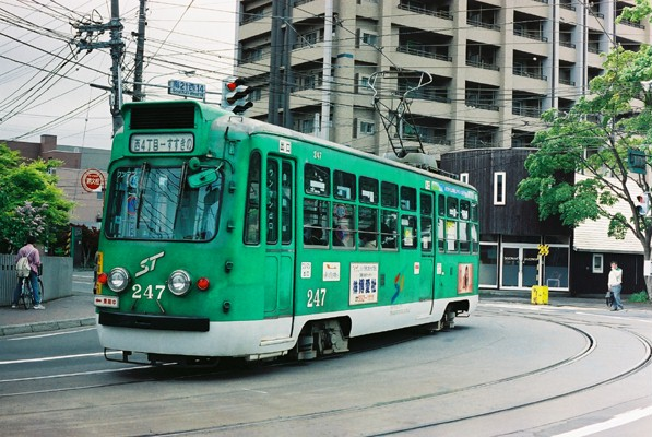 札幌市電247号車 2006年6月2日、電車事業所前にて投稿者撮影 Sapporo Streetcar, 247 Tram. 2 Jun 2006, in front of Tram Center, photo by uploader.